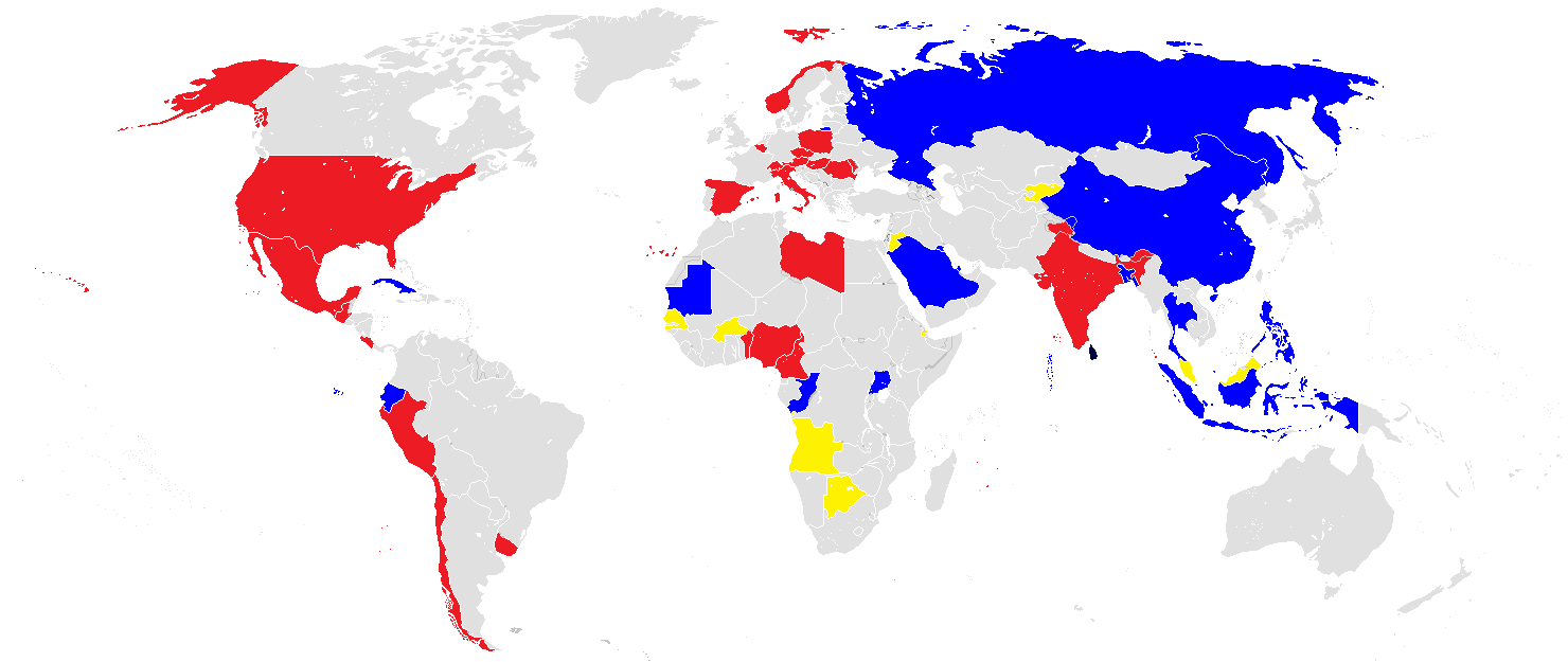 UN Human Rights Council 19th regular session 22 March 2012 vote on resolution 19/2 on reconciliation and accountability in Sri Lanka. For Against Abstain Used File:BlankMap-World.png as template.